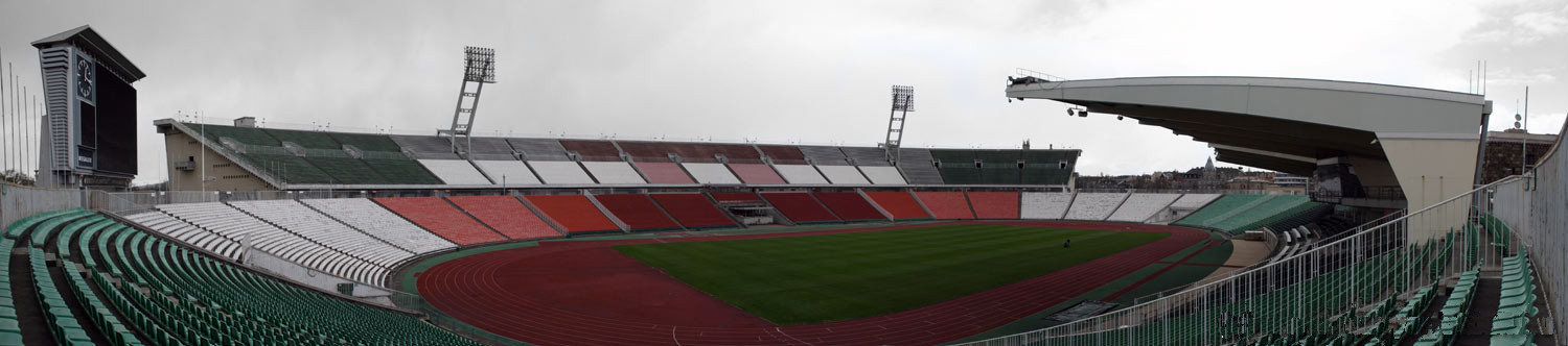 Panorama of Puskás Ferenc Stadion (ex-Népstadion) in Budapest